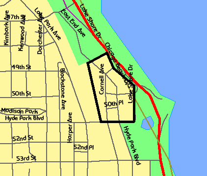 Map of the location of Indian Village, Chicago